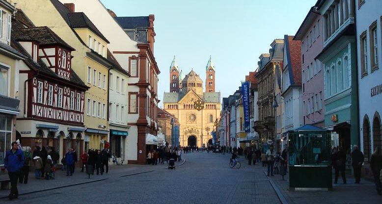 Speyer: Maximilianstraße with cathedral in background.